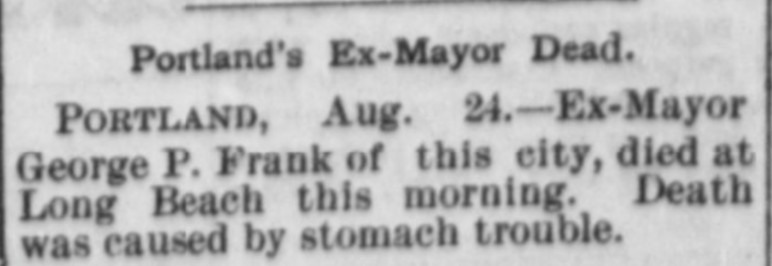 Portland's Ex-Mayor Dead. PORTLAND, Aug. 24.–Ex-Mayor George P. Frank of this city, died at Long Beach this morning. Death was caused by stomach trouble.